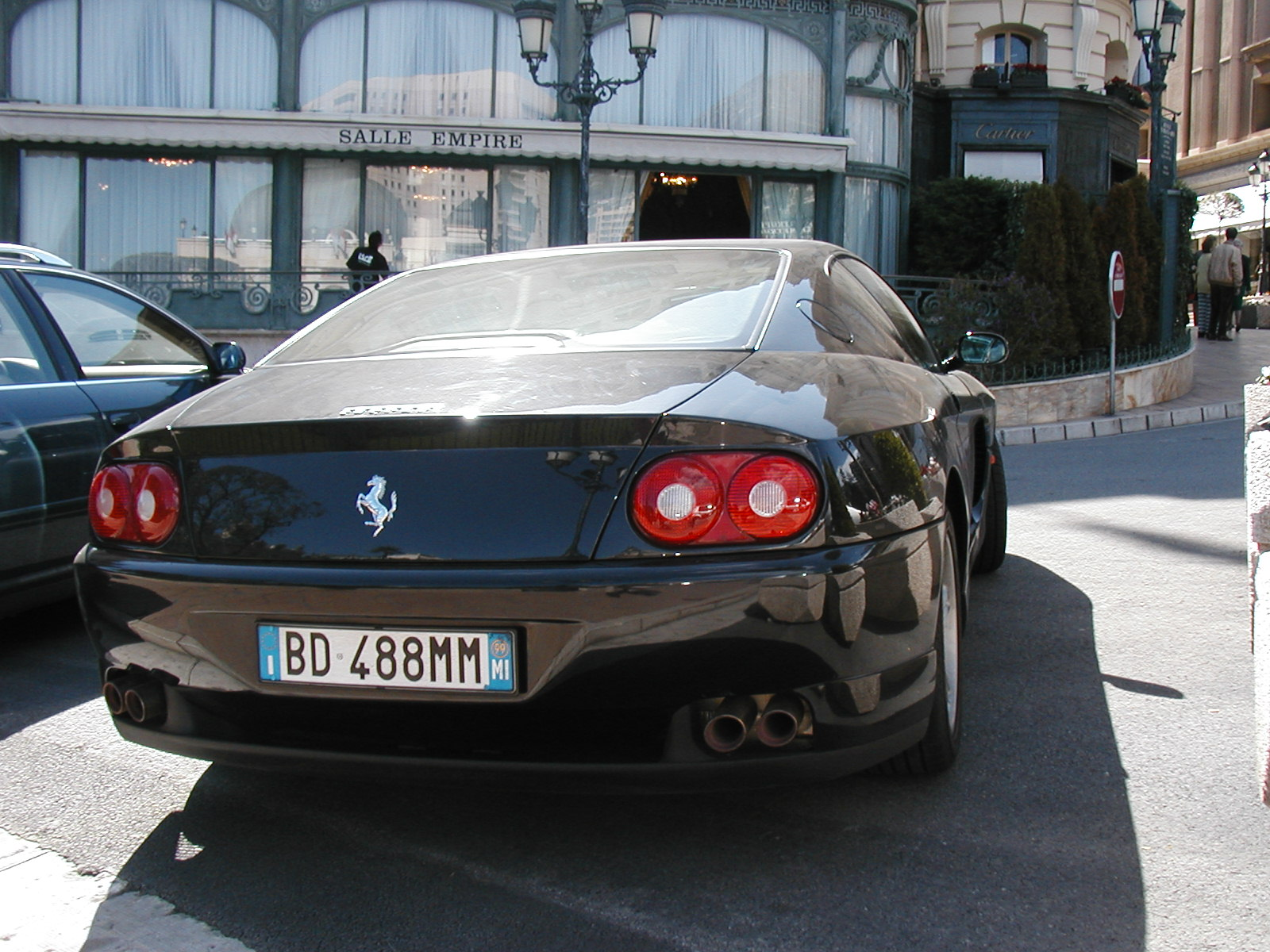 Another gorgeous Ferrari in Monaco. I'm so sketchy, taking all these photos...